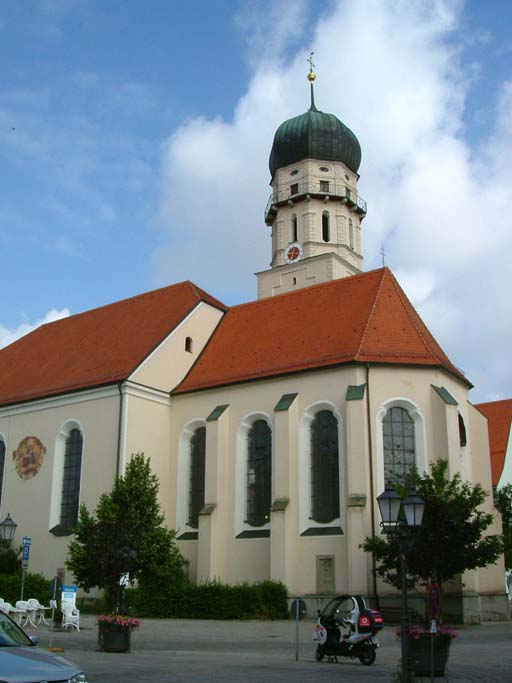 Parish church of the Assumption in Schongau, Bavaria